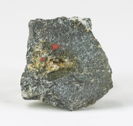 From: Bukov Mine, Rožná deposit, Žďár nad Sázavou, Vysočina Region, Moravia (Mähren; Maehren), Czech Republic Bukovite is a rare Tl-Cu-Fe selenide and this abandoned uranium mine is the Type Locality. Metallic grayish-brown grains are noted by the two red dots. Seldom available. Ex. Josef Vajdak Collection, a noted Czech specialist. Dimensions: 1.4 cm x 1.4 cm x 0.8 cm